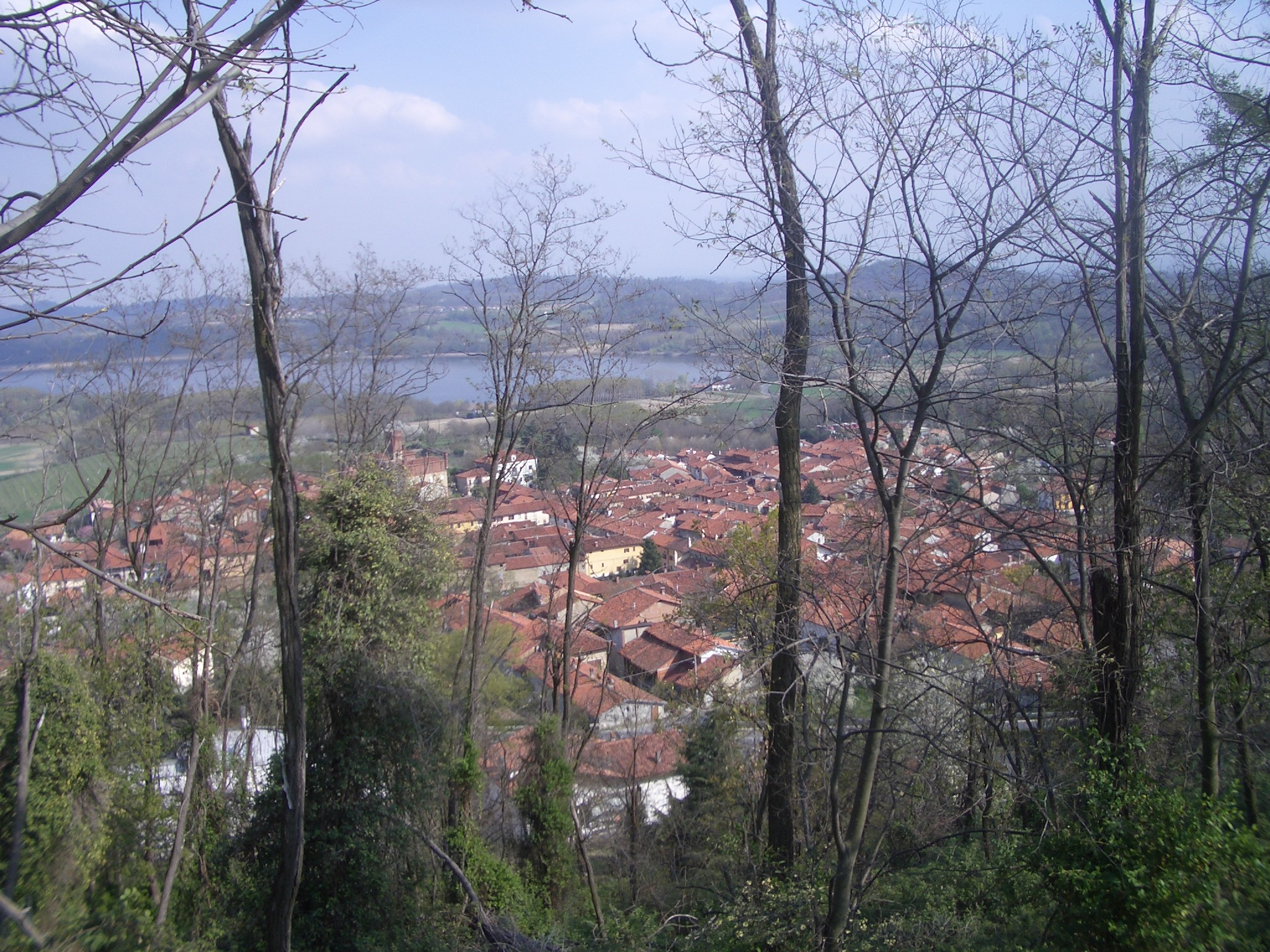 Candia Canavese, Landscape with the lake